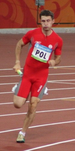 Rafal Wieruszewski final run in the relay 4x400 m. The Olympic Games in Beijing 2008.